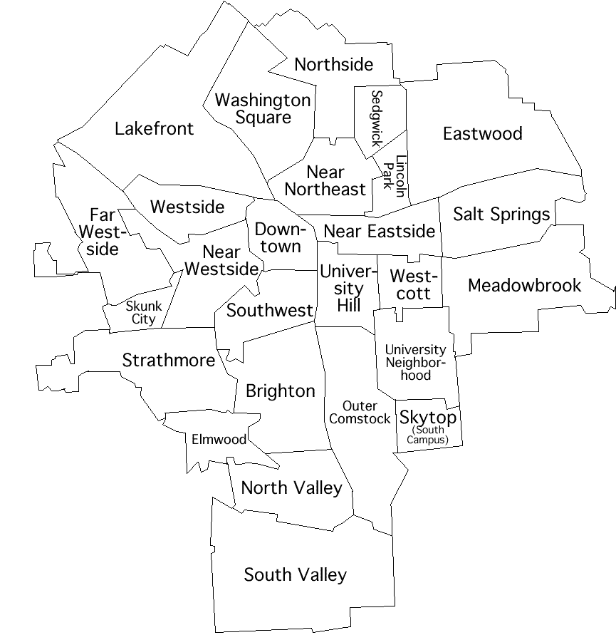 Syracuse neighborhoods Created & Uploaded By: Kai Brinker